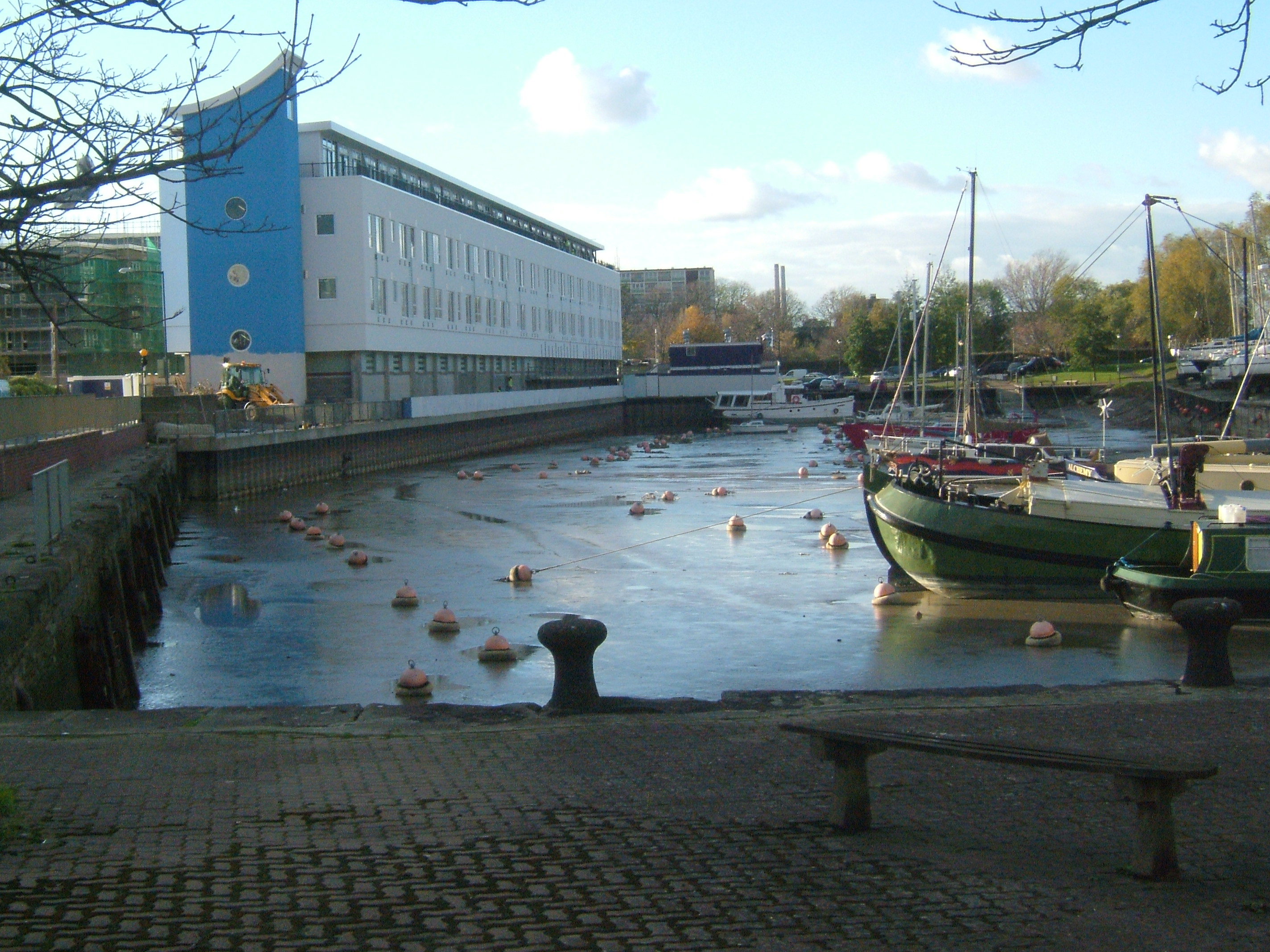 Gravesend is in North Kent, England on the River Thames. The Gravesend Canal Basin on the Thames and Medway Canal. The Canal no longer exists.